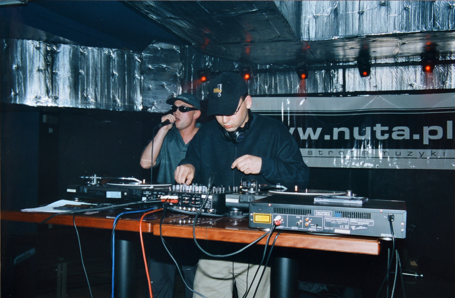 Photo taken by Marcin Żurawicz (MaZu Photography) in 2000 at Hybrydy club on the occasion of the celebration of the first anniversary of the online music service Nuta.pl.